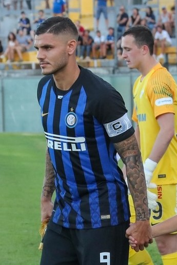 Argentine footballer Mauro Icardi as Inter Milan captain in summer 2018.